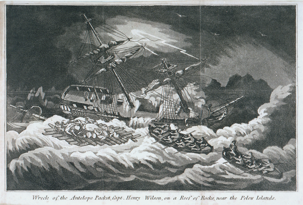 aquatint; 174 mm x 259 mm